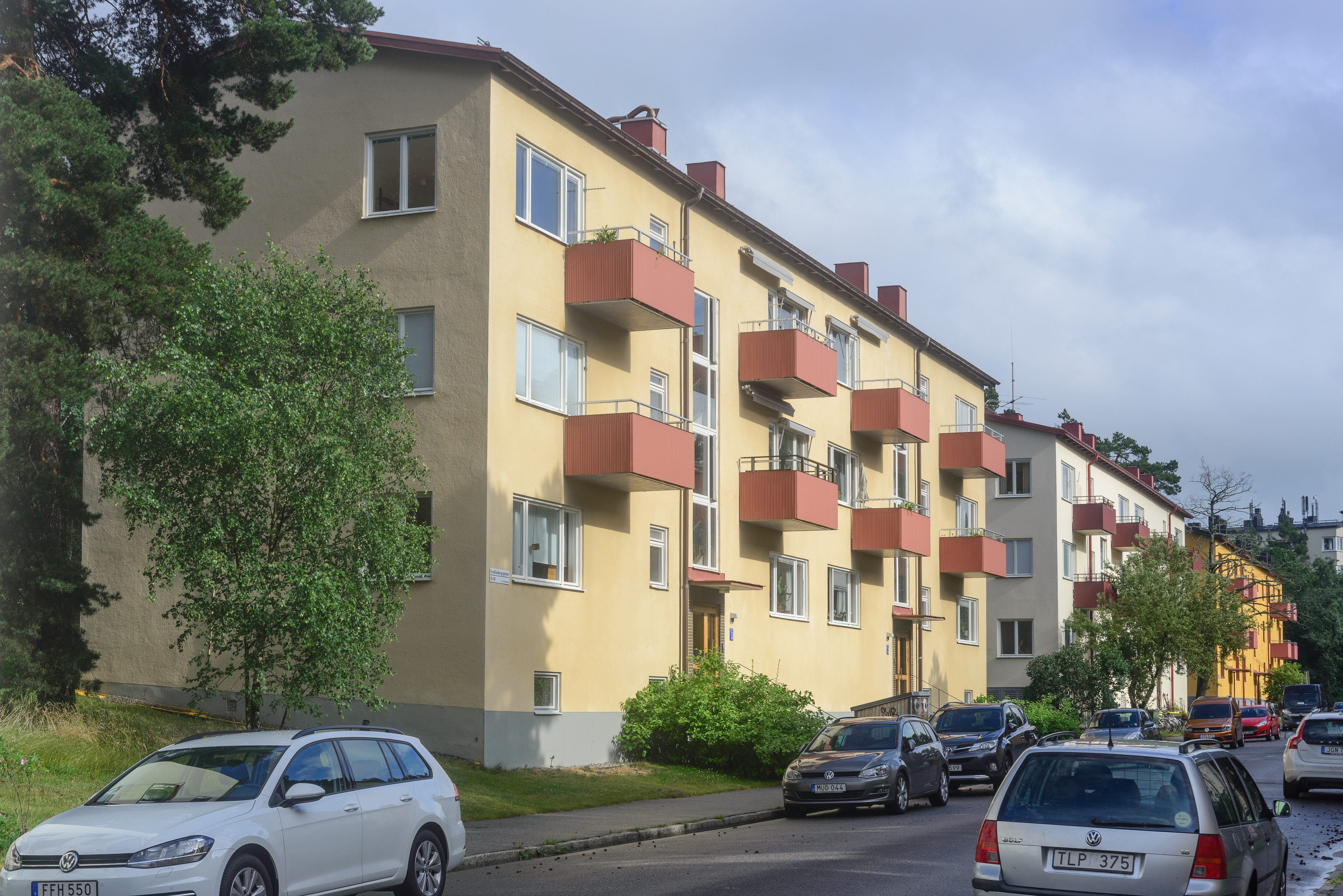 The street Strahlenbergsgatan in Hammarbyhöjden, Stockholm.